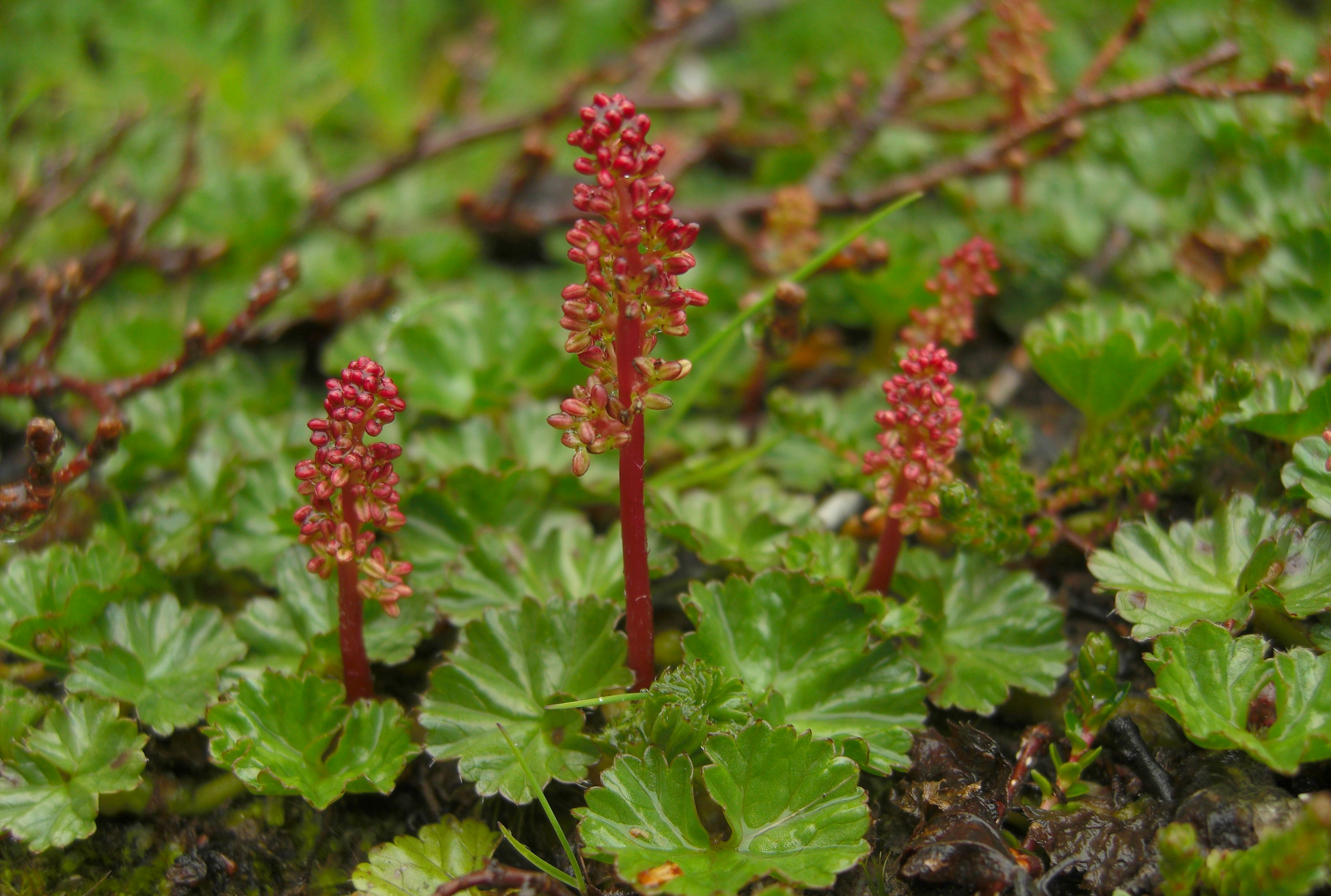 Gunnera magellanica Lam. These are male inflorescences. Female plants have compact, sessile ones. Both are highly-reduced, consisting of flowers with just two stamens, or a two-branched style, and nothing else.